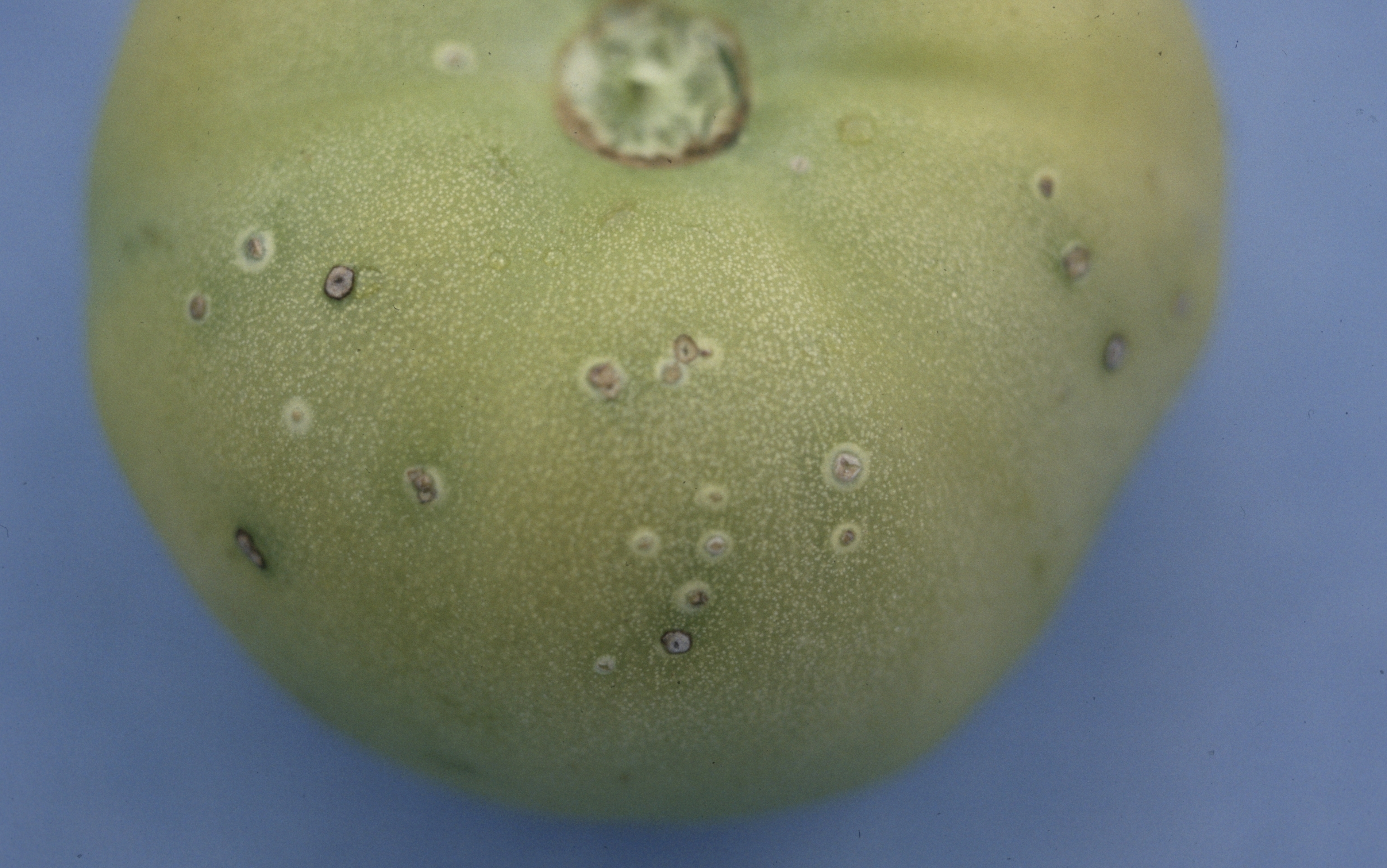 Symptoms of Clavibacter michiganensis infection on tomato, causing a disease known as bacterial canker.